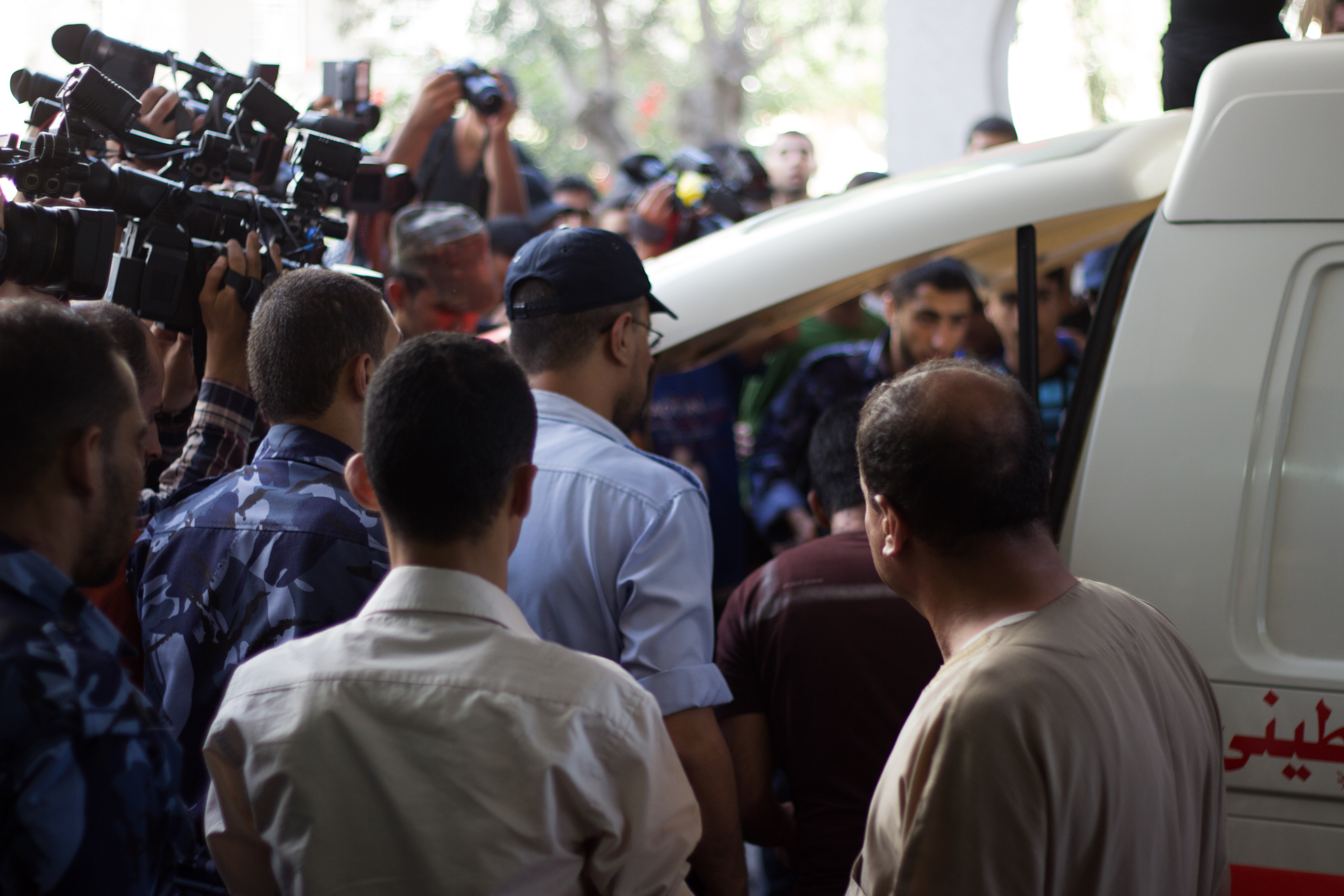 Once the Ambulance reaches the hospital, journalists and policemen surround the ambulance to take pictures and lend a hand. 7.8.2014